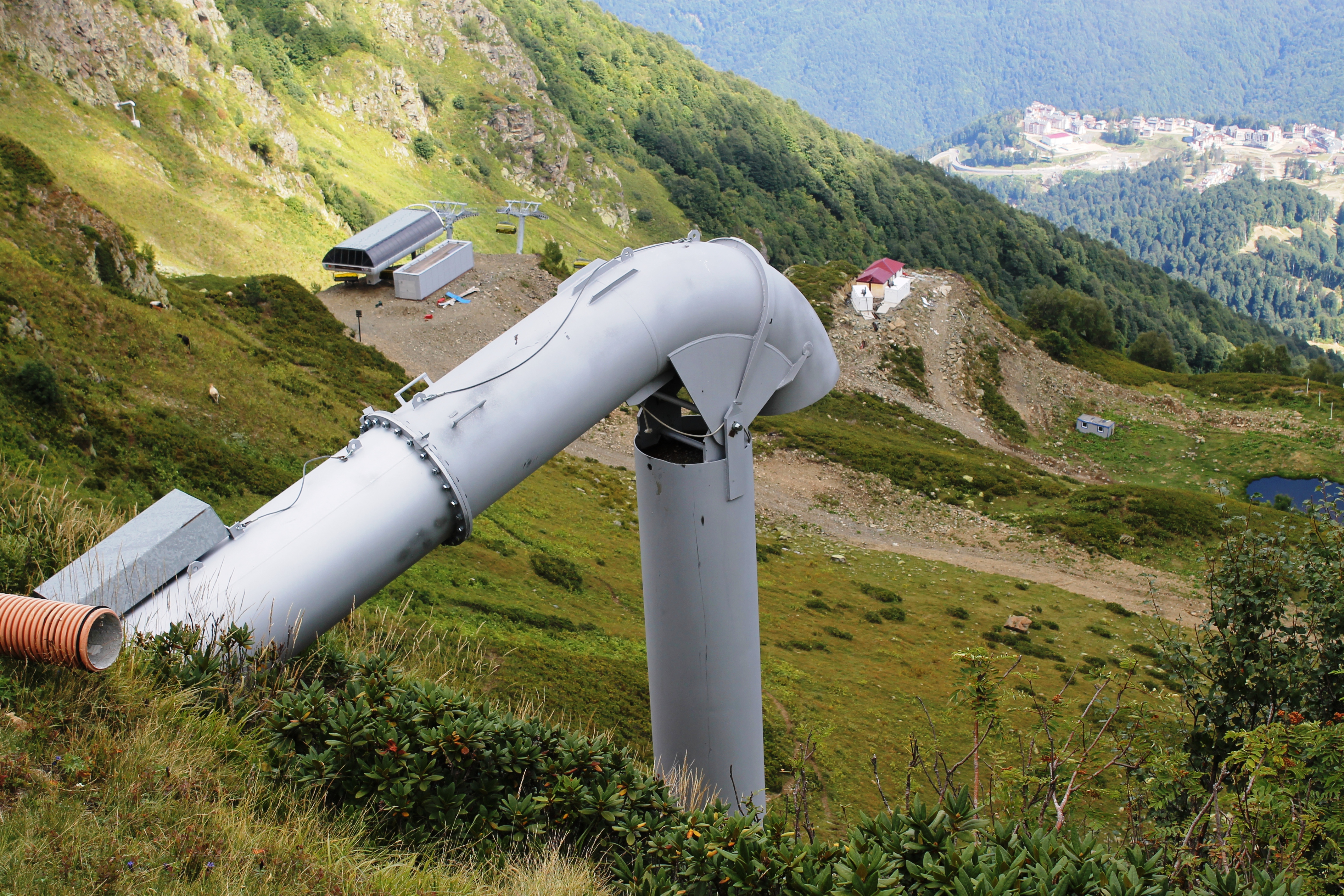 The avalanche equipment - a GAZEX system gun. It is established on slopes in the top part of a ski area on Alpine Resort Rosa Khutor in Krasnaya Polyana, Sochi.